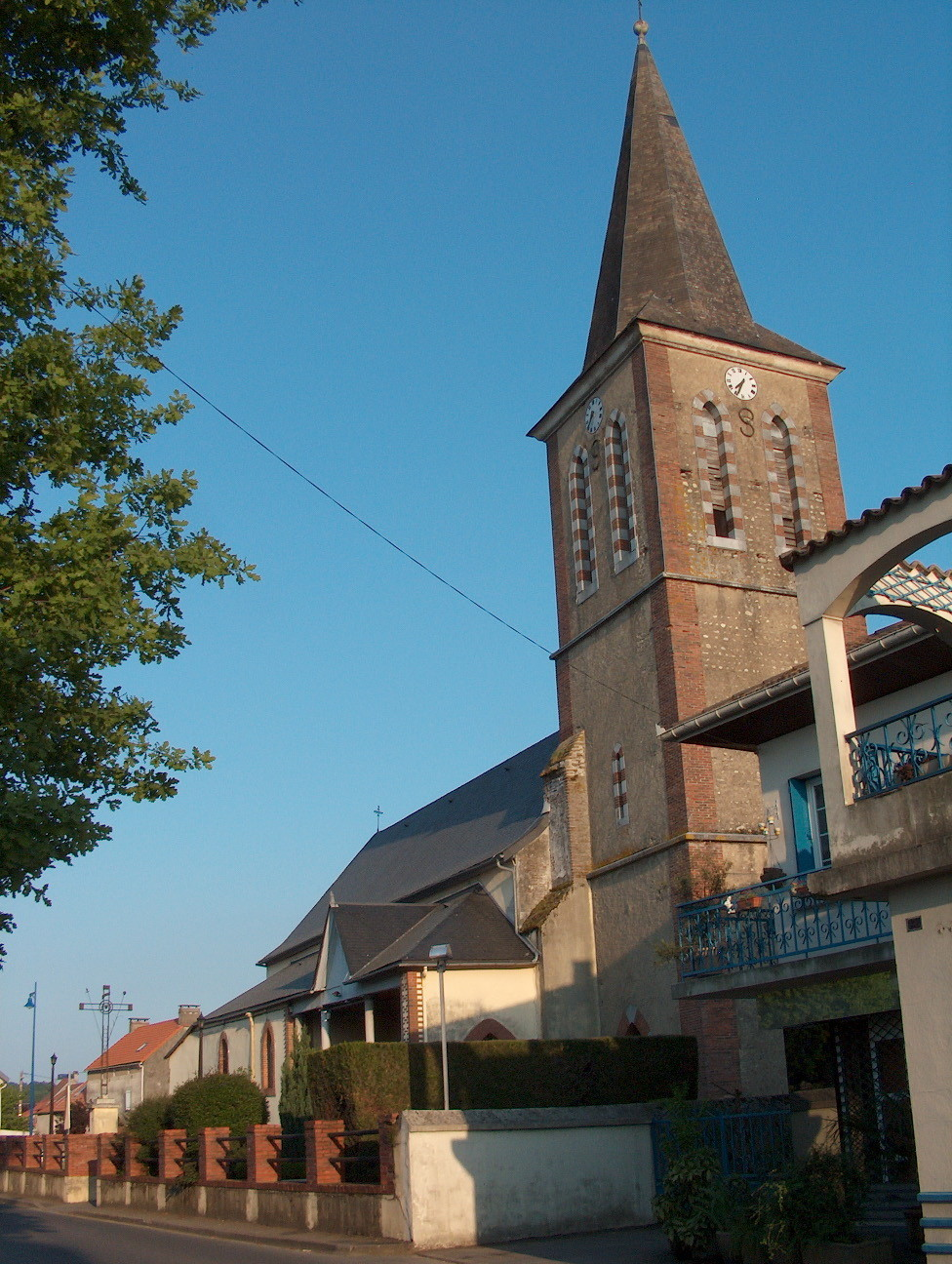 Soues (Hautes-Pyrenees/France) : the church (Andre Fourcade street). View from D92 road (Jean Maumus street), toward south-east.